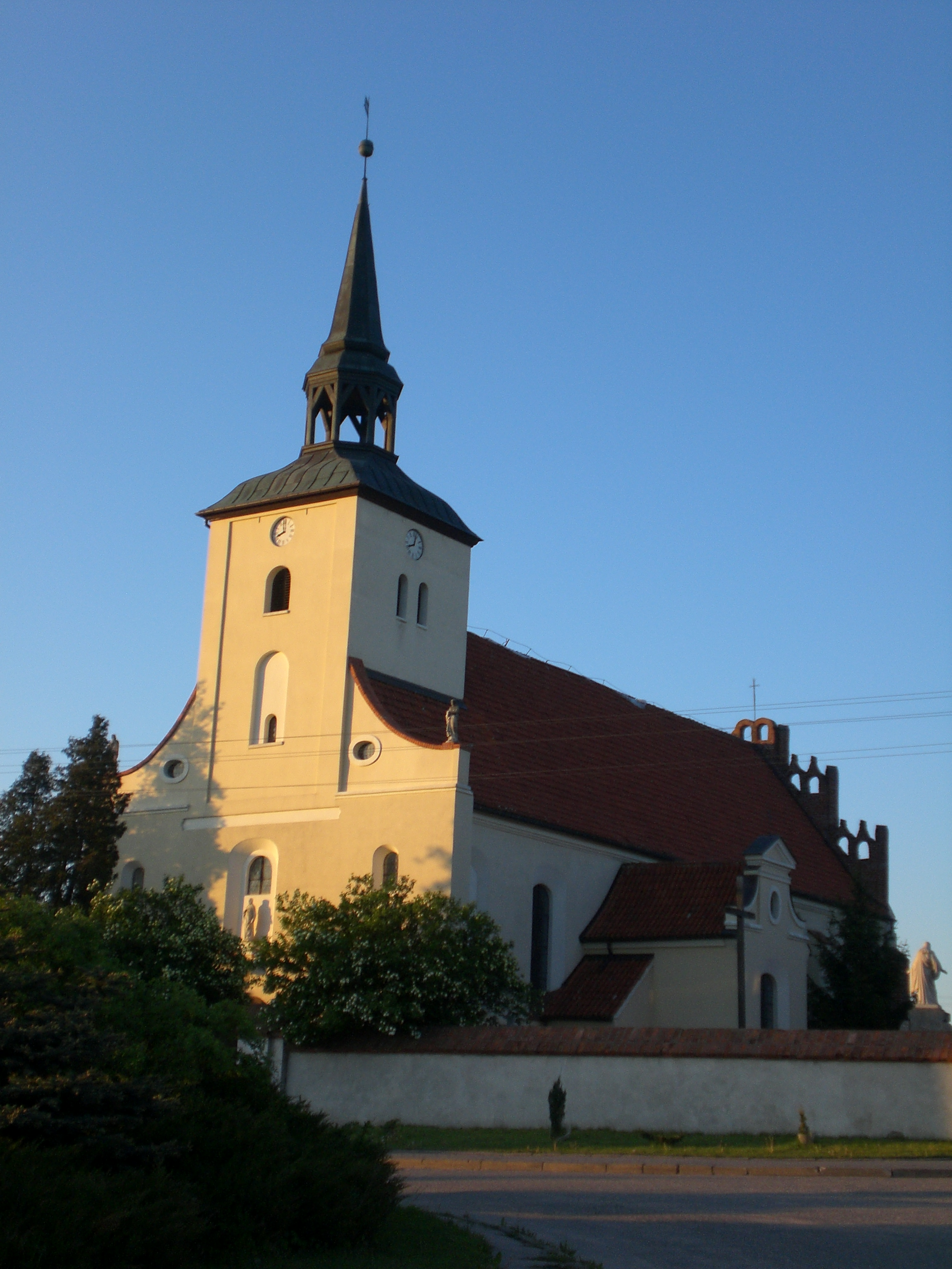 Church of Saint Martin in Barłożno